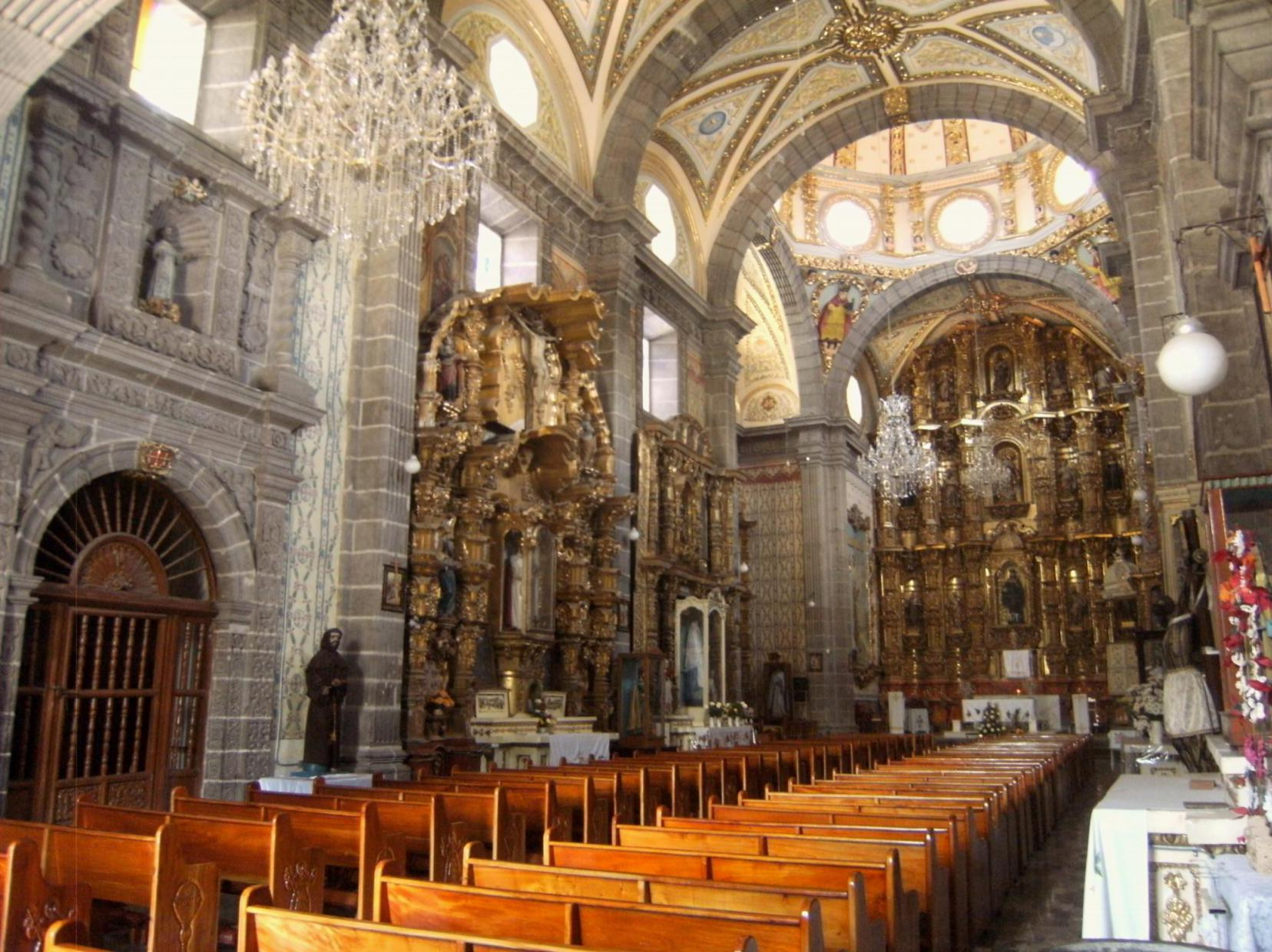 Saint Francis of Assisi Church, Tepeyanco, Tlaxcala, México